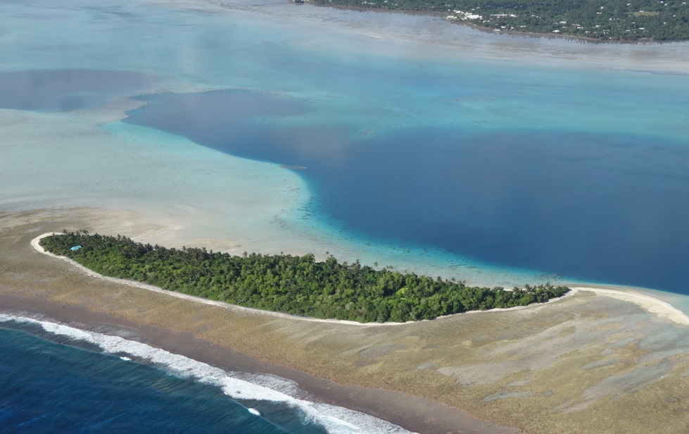 Picture of Nukuteatea islet, north of Wallis island, with a view of the coast (Vaitupu village)